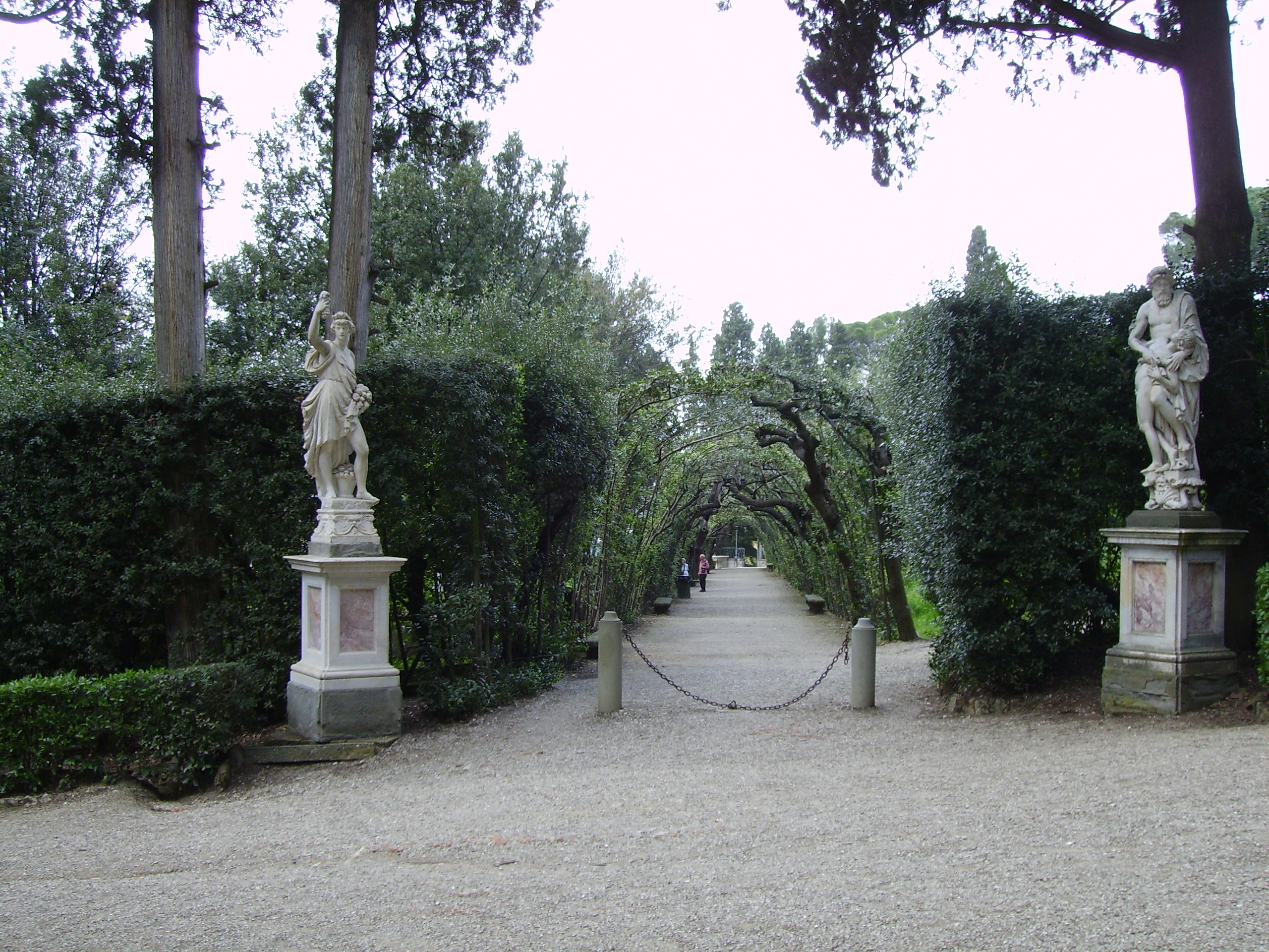 Autumn by Pietro Francavilla and Asclepius and Hippolytus by Giovan Battista Caccini